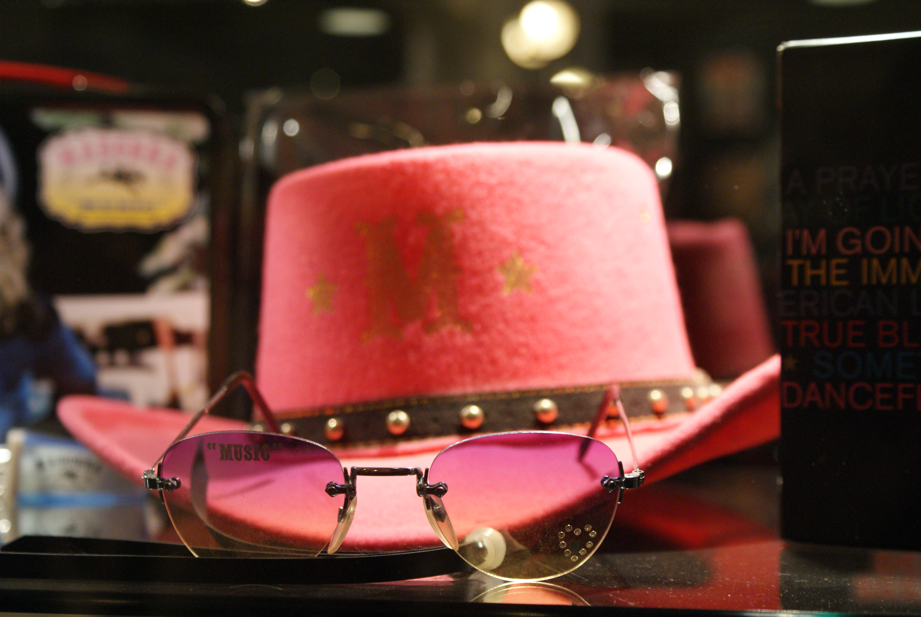 Madonna's Music hay and glasses